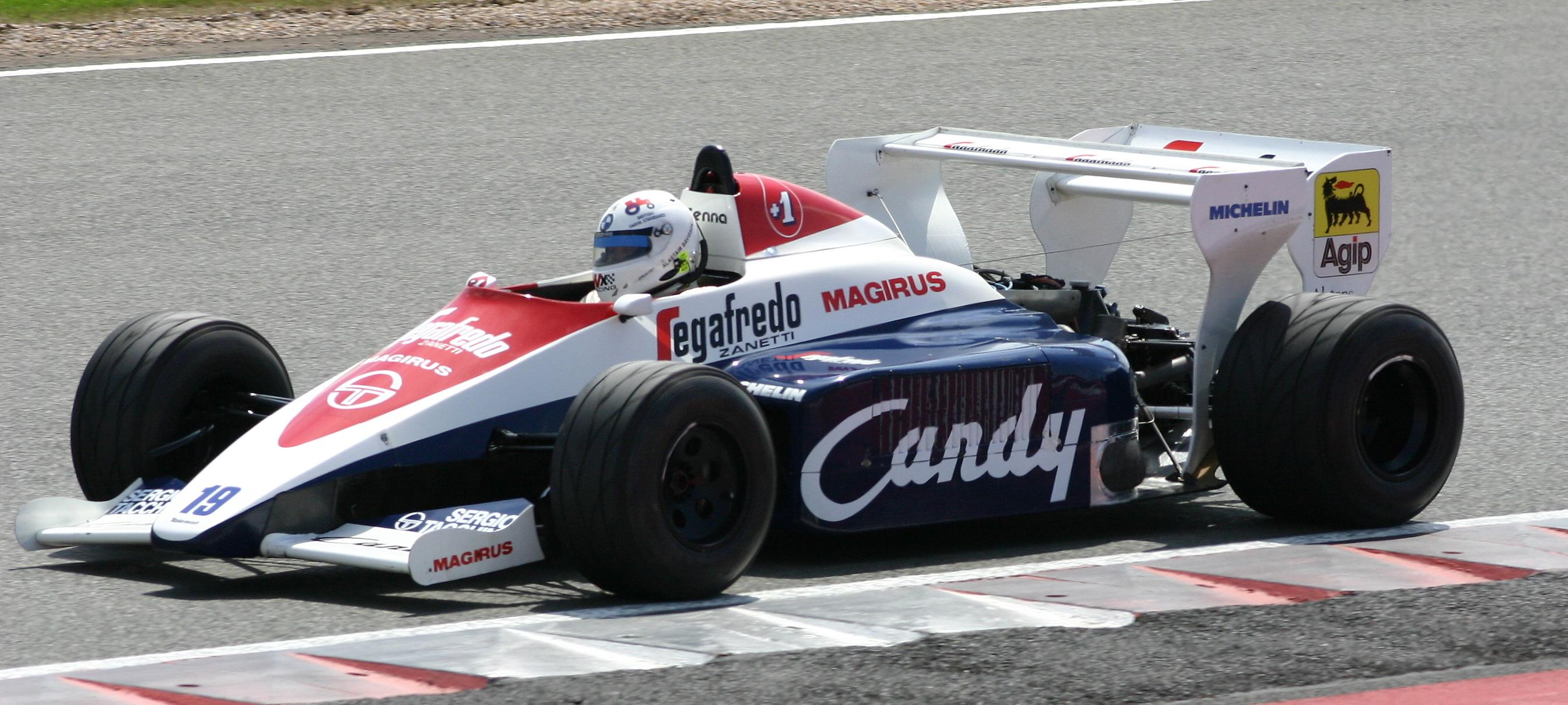 The Toleman TG184 at the 2008 Silverstone Classic race meeting.